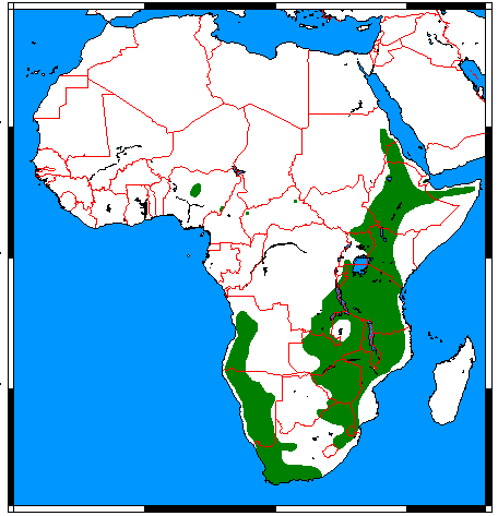 Range map for Klipspringer (Oreotragus oreotragus), made by me with help of Map depending on the range map at IUCN red list.